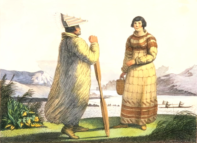 Illustration of men's and women's dress, Aleutian Islands, ca. 1820 from